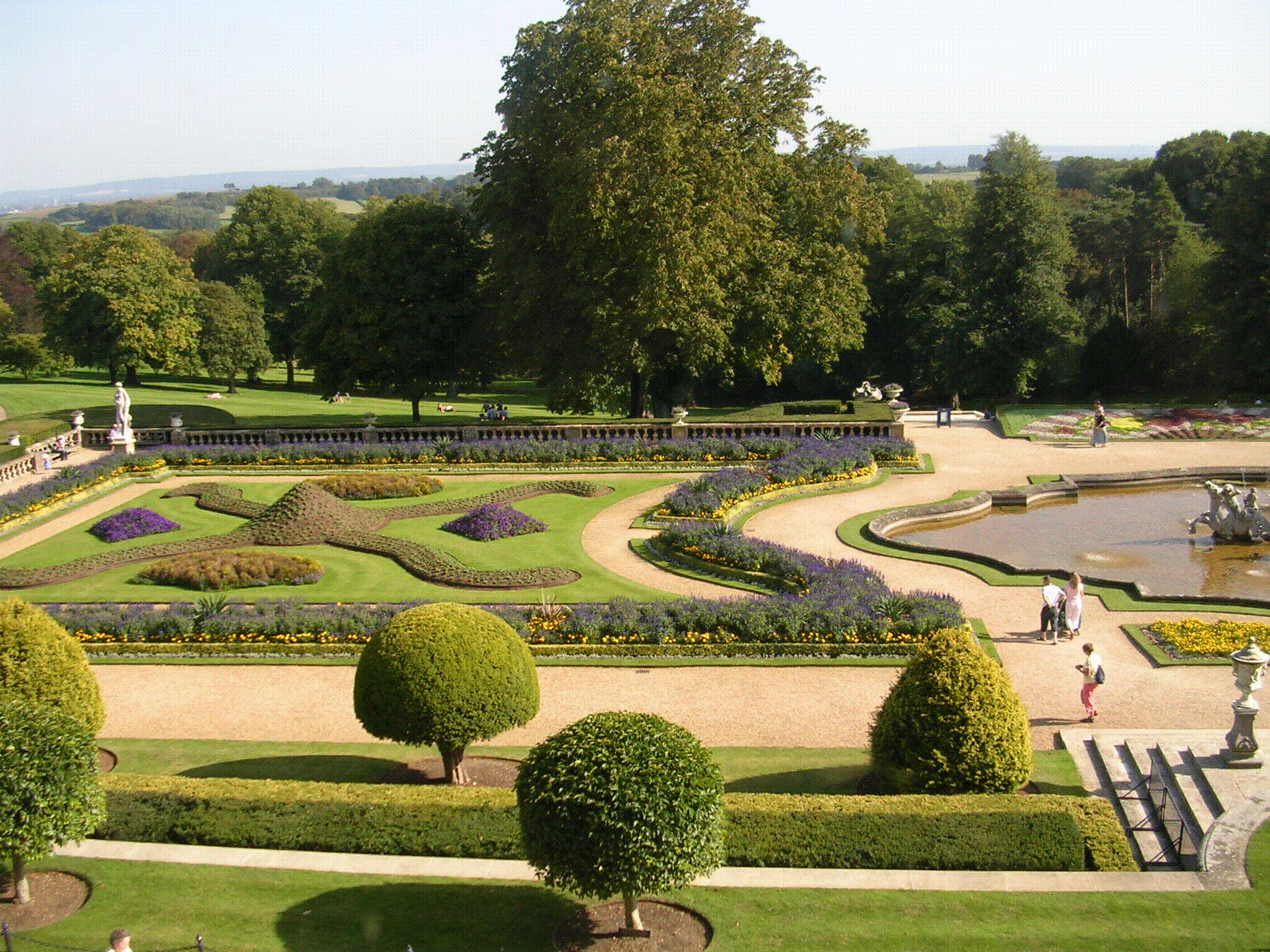 Parterre in the garden at Waddesdon Manor, Buckinghamshire, England.